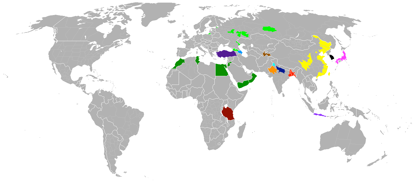 This map highlights the countries and territories that host the U.S. Department of State Critical Language Scholarship Program. Red: Bangla/Bengali Orange: Hindi Yellow: Chinese Light Green: Russian Dark Green: Arabic Teal: Punjabi Light Blue: Azerbaijani Dark Blue: Urdu Light Purple: Indonesian Dark Purple: Turkish Pink: Japanese Brown: Persian Black: Korean Maroon: Swahili